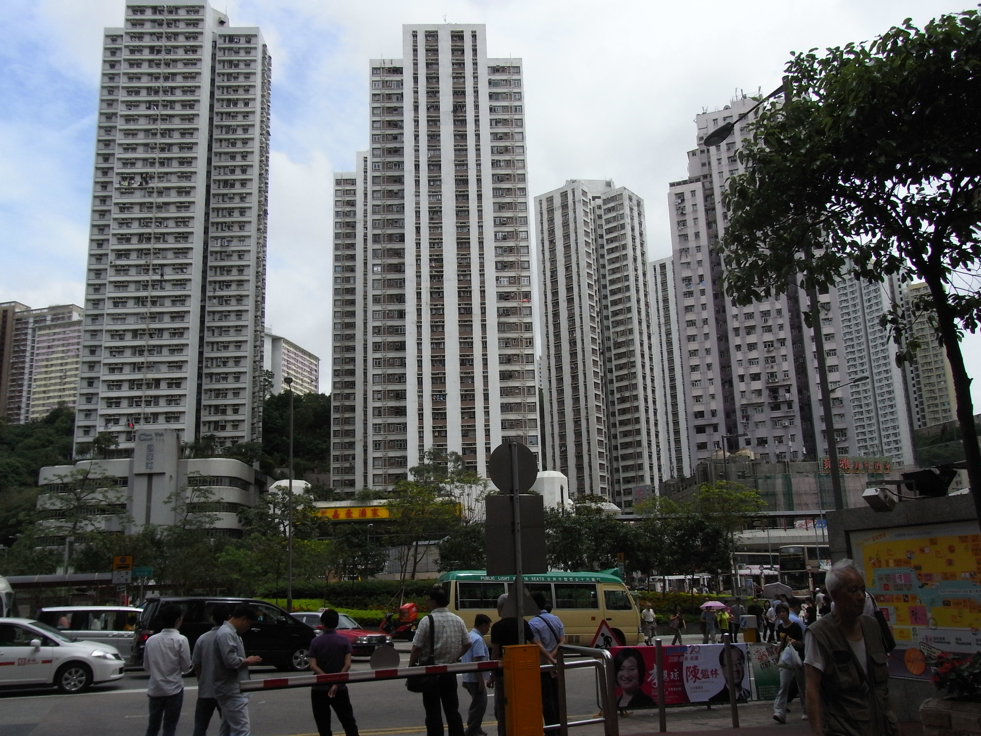 牛頭角 佐敦谷, Jordan Valley, Ngau Tau Kok, Hong Kong